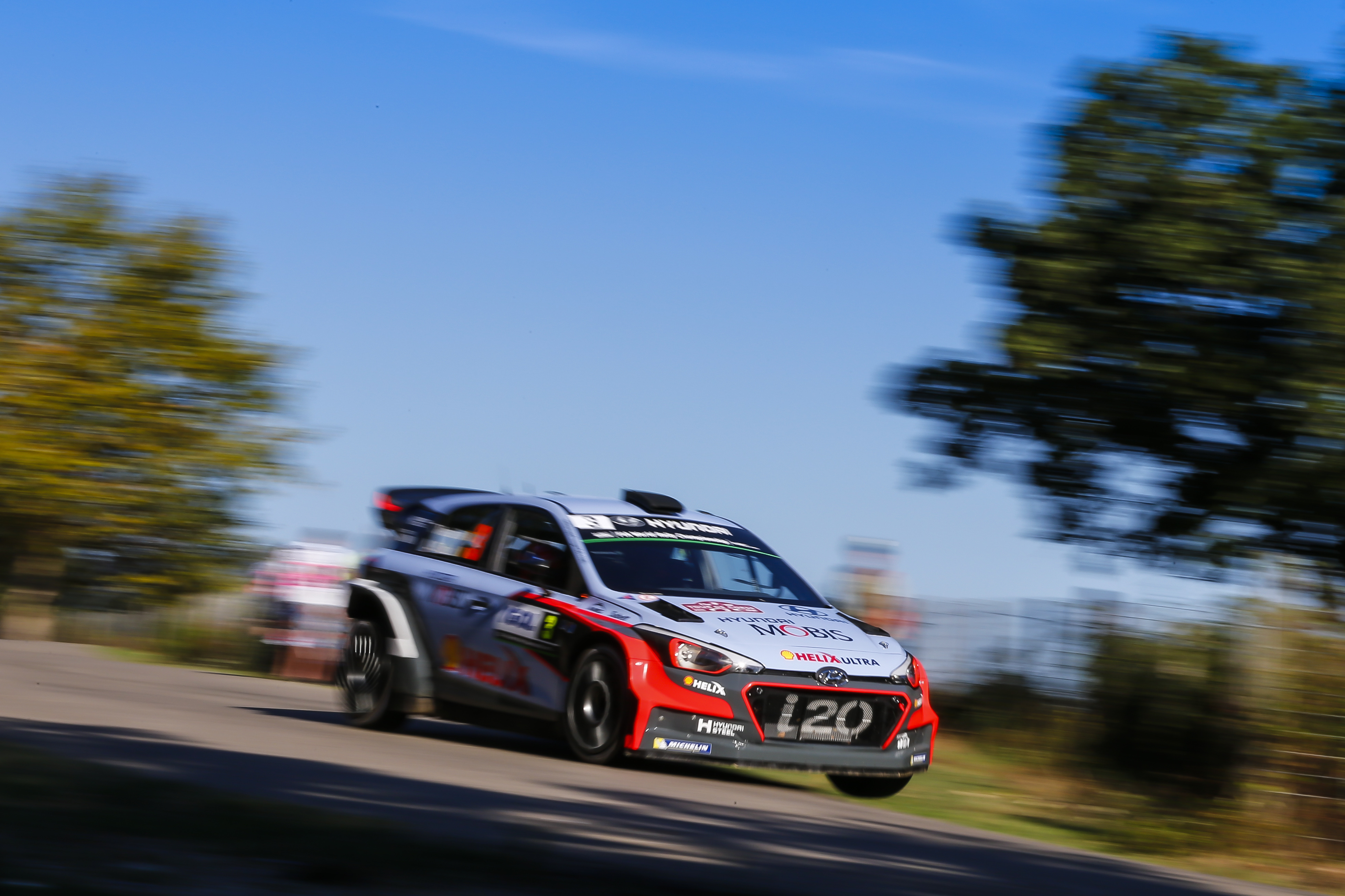 Thierry Neuville and Nicolas Gilsoul in their Hyundai i20 WRC at the 2016 Rally France.